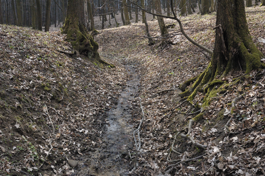 Spring of the Holubinka